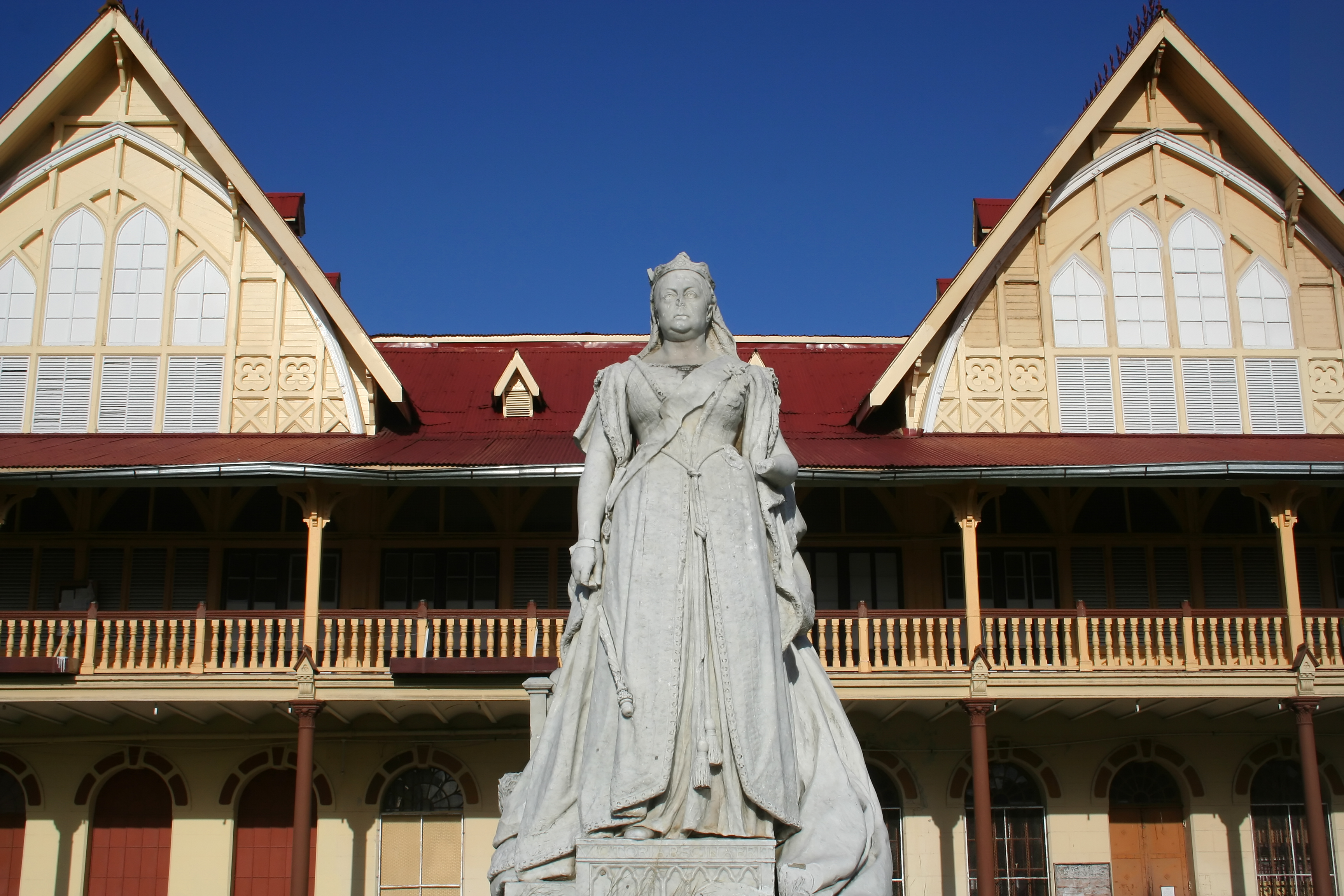 Statue of Queen Victoria - Courthouse in Georgetown, Guyana